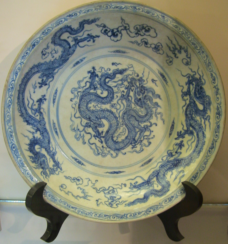 A ceramic disc made in 15th century in Northern Vietnam.